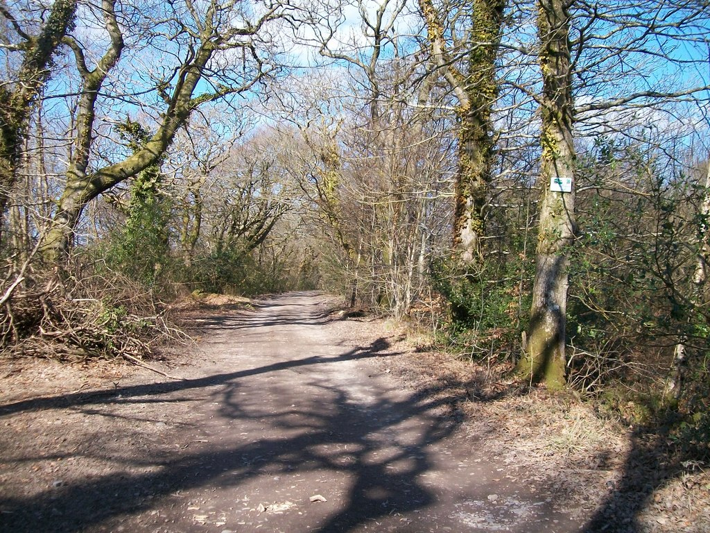 View north along Y Lon Goed